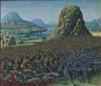 Battle of Ramla 1102